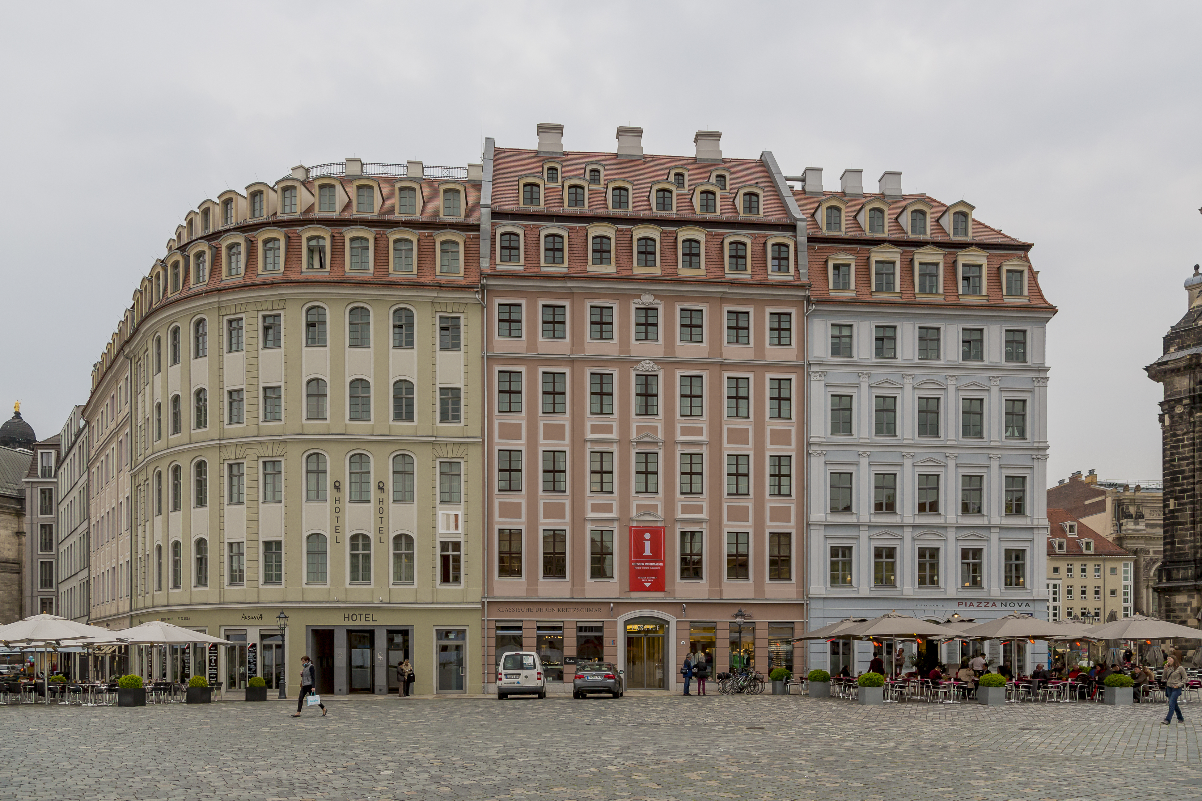 Dresden, Germany: Neumarkt